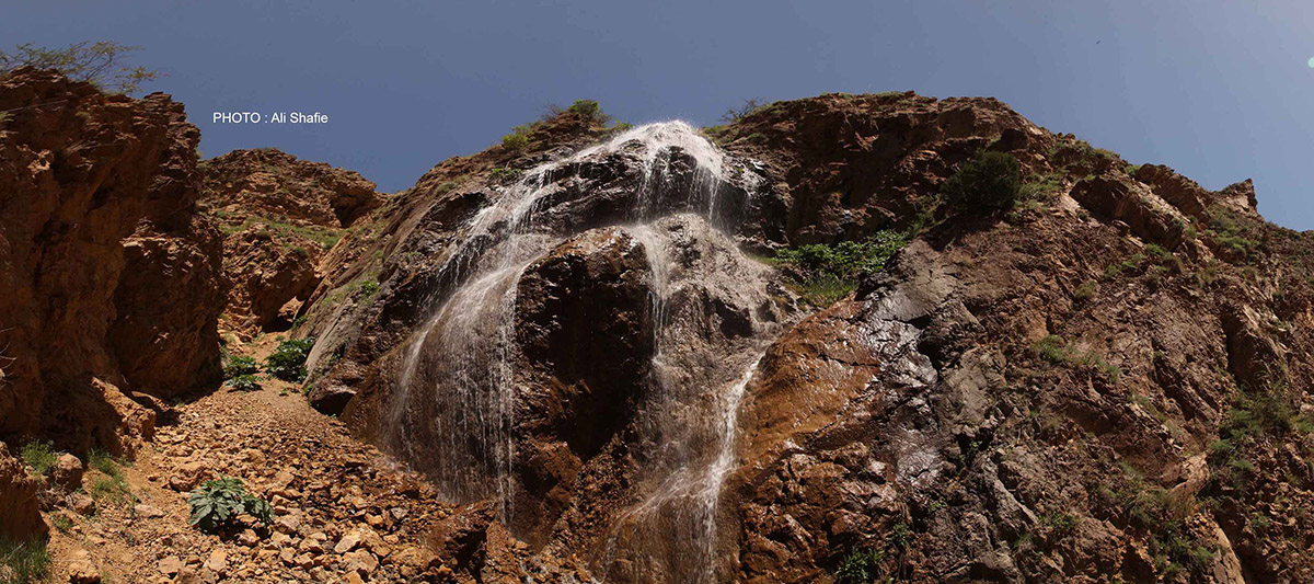 آبشار قاراگوش قیه سی در روستای کلی